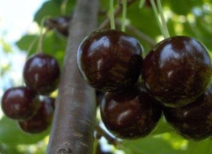 Ripe sour cherries on a branch